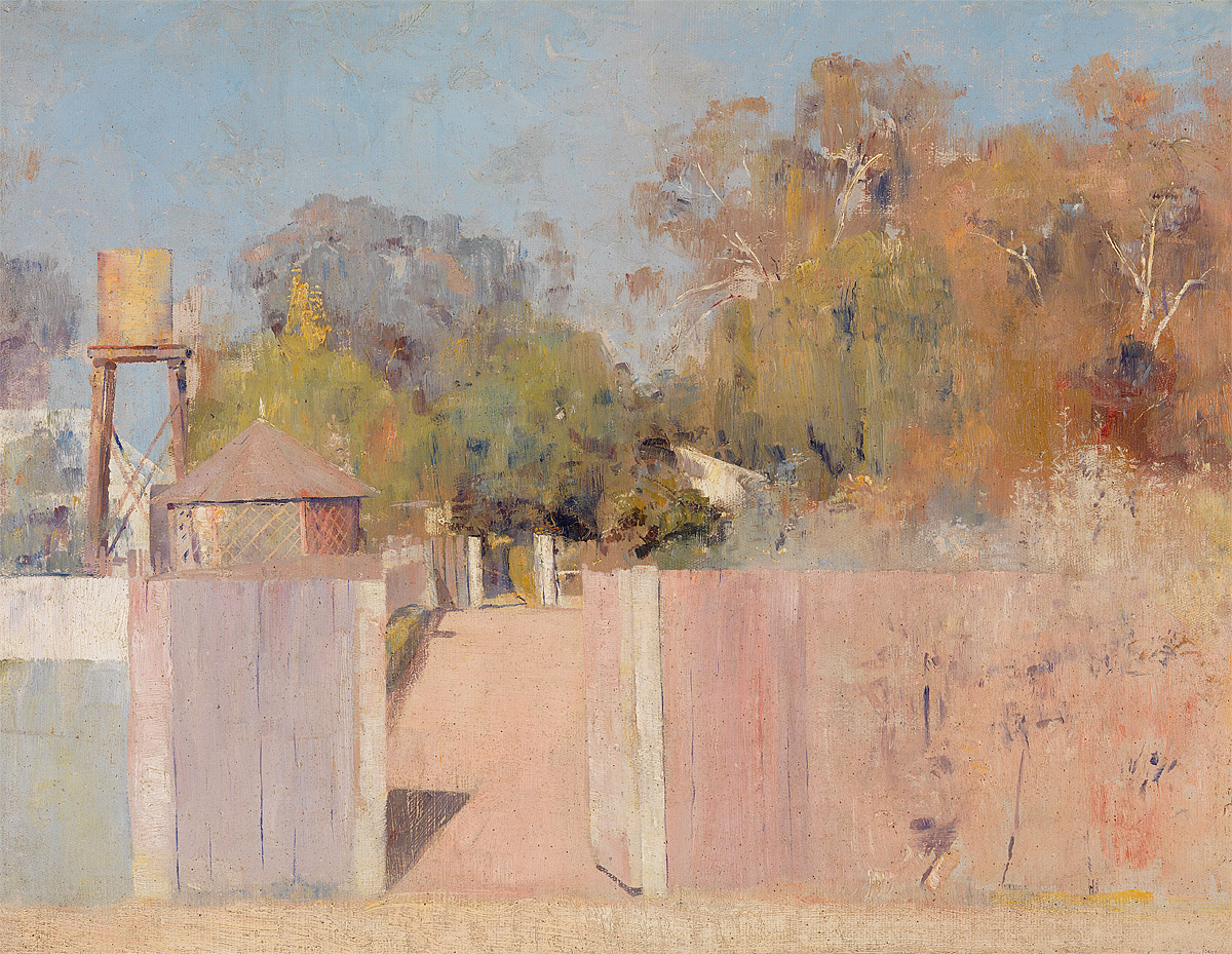 The old barracks at Collendina, oil on canvas, 40.0 (h) x 51.5 (w) cm; oil on canvas.